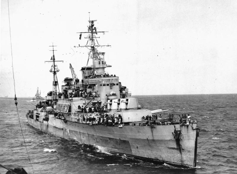 The Canadian cruiser HMCS Uganda (C66) while serving with the British Pacific Fleet, 1945. Originally the Royal Navy cruiser HMS Uganda (66), she was renamed HMCS Quebec (C66) in 1952.